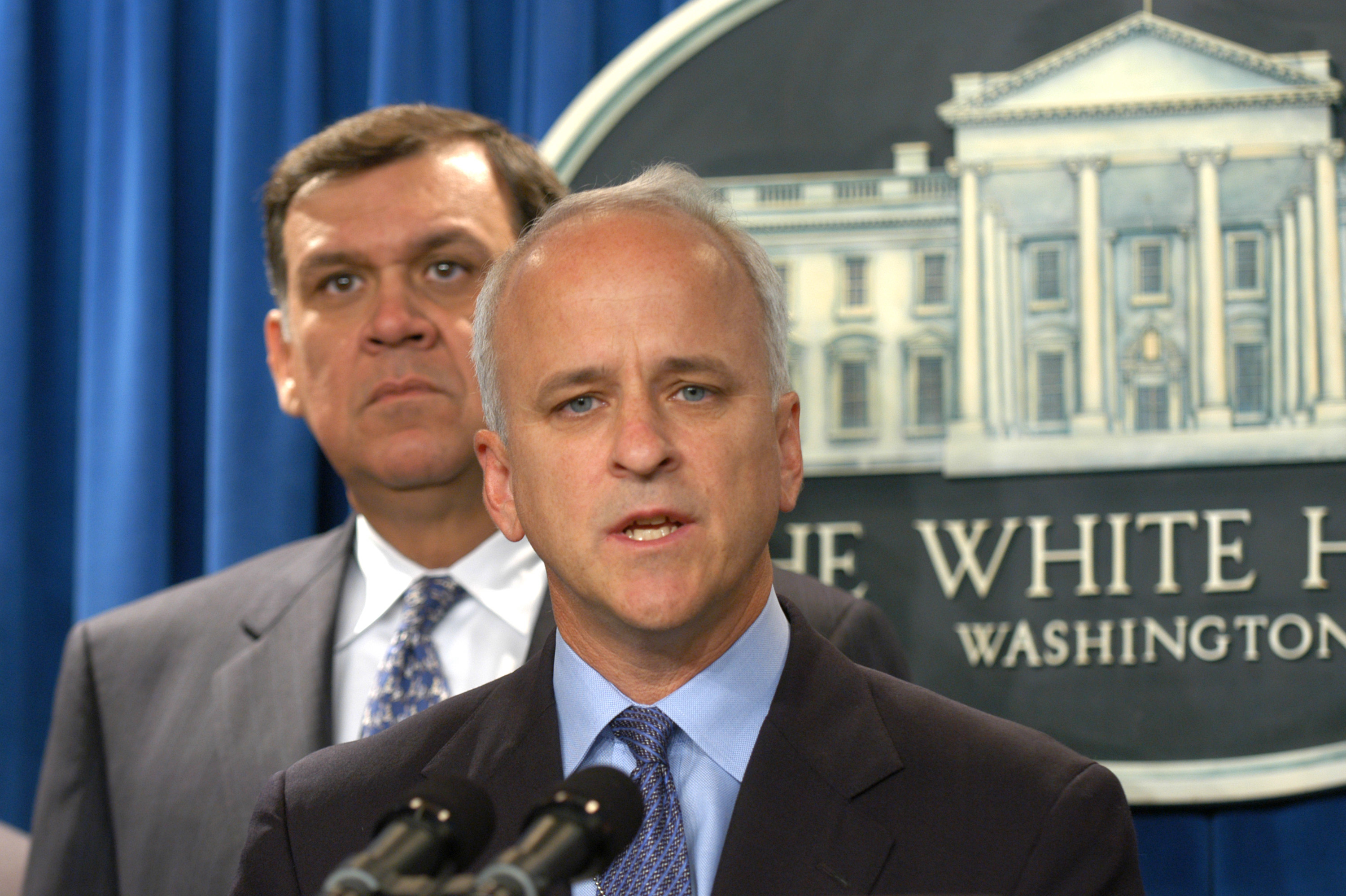 Jim Towey, Director of the White House Office of Faith-Based and Community Initiatives, and Mel Martinez, Secretary of the Department of Housing and Urban Development, address a press conference on faith-based initiatives.